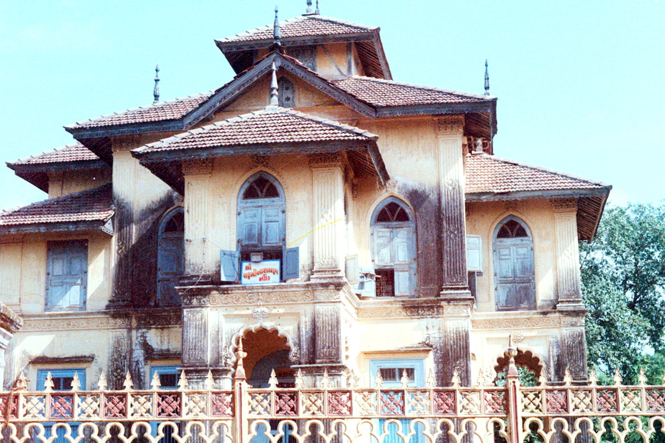 Lakshmi Temple in center of the Dharampur Town Displays the classic Architecture work